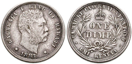 Hawaii. Kalakaua I. 1874-1891 AR Umi Keneta [Dime] (18mm, 2.48 g, 6h). Charles E. Barber, engraver. Dated 1883. Bare head right ONE DIME within crowned wreath. Breen 8030; KM 3. VF, toned, light scratches in fields.